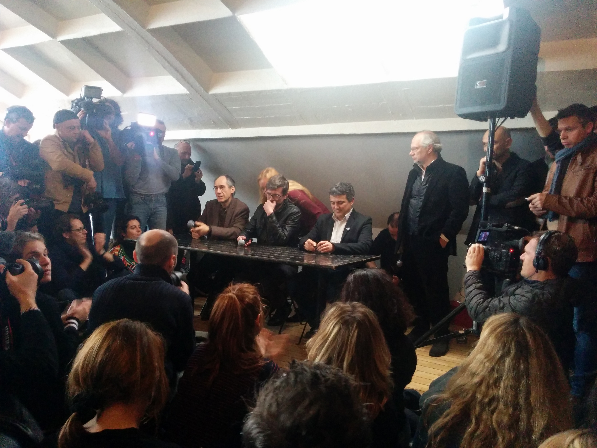 Gérard Biard, the cartoonist Luz and Patrick Pelloux (with Laurent Joffrin and Richard Malka standing), at the press conference of Charlie Hebdo, on 13 January 2015.